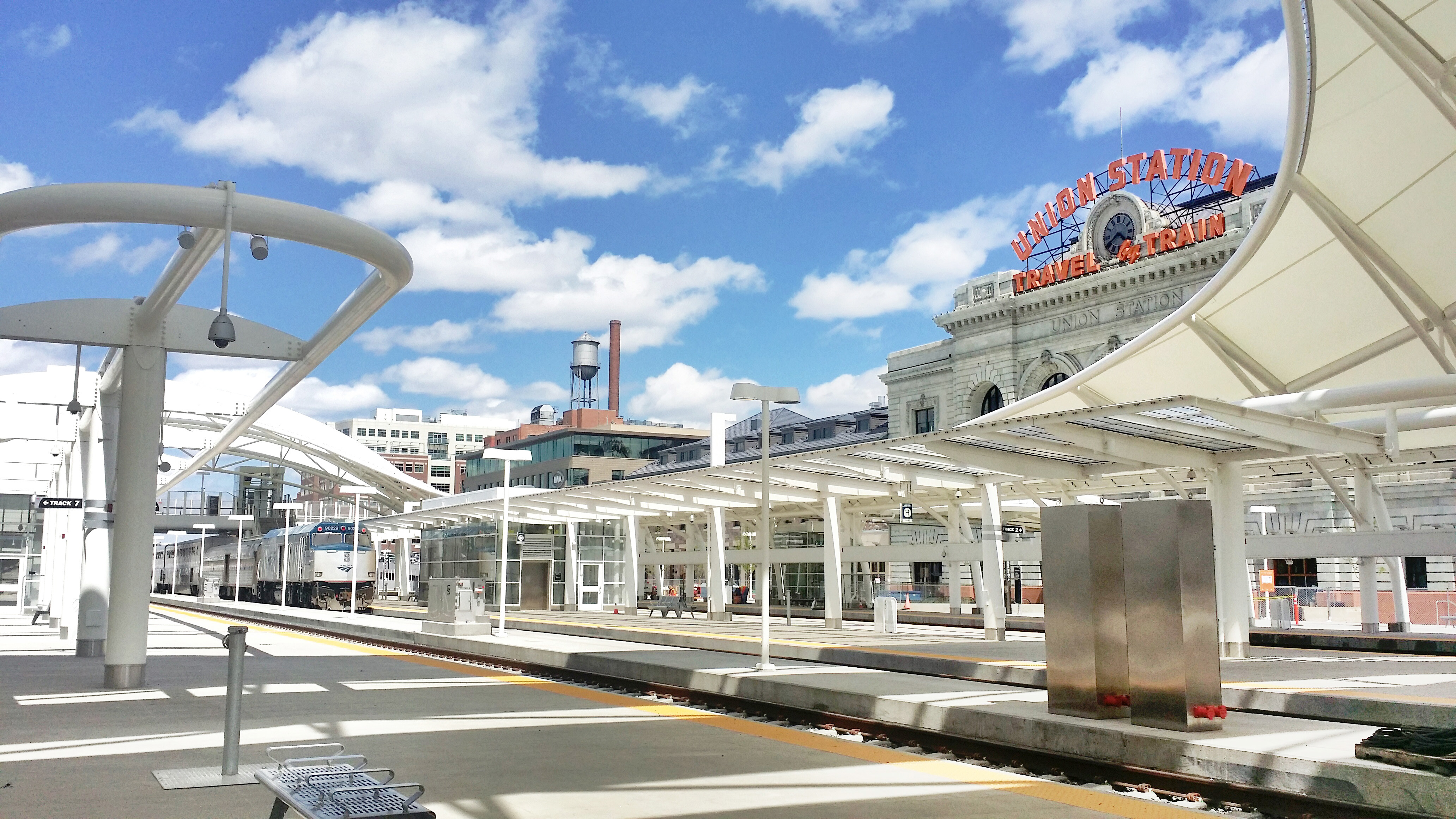 Designed by architecture firm SOM (Skidmore, Owings & Merrill), the open-air Train Hall stands as the centerpiece of Union Station's redevelopment from former rail yards into a regional transportation hub. Its dynamic sweep is meant to preserve sight lines to the historic station. Currently serving Amtrak's Zephyr trains, the hall will serve four future commuter rail lines to destinations such as Denver International Airport in 2016 and 2018.